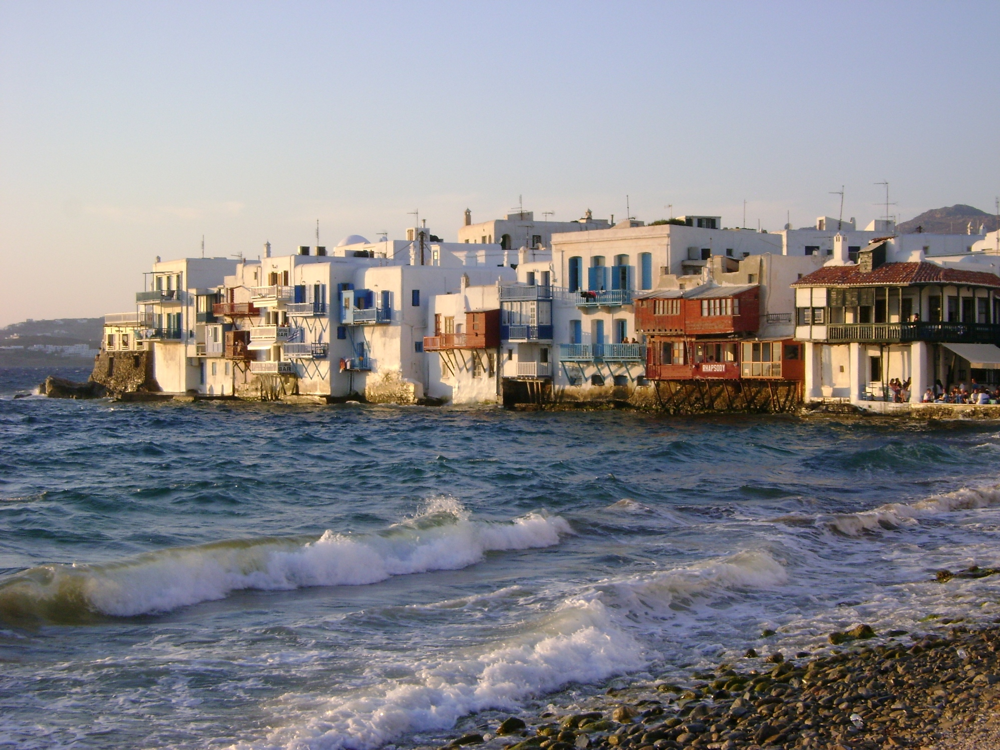 View of Little Venice, Mykonos, Greece